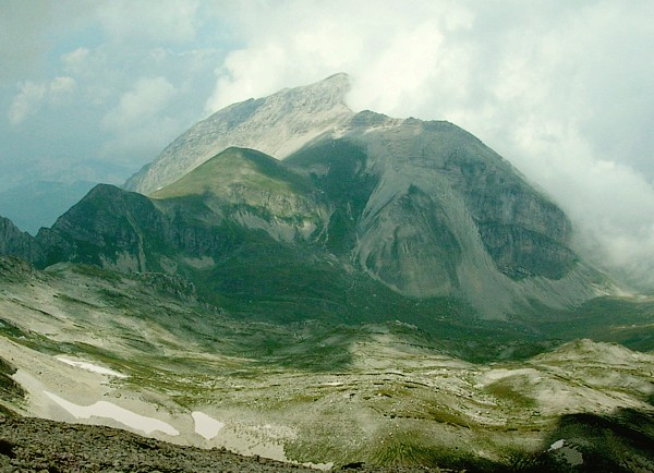 Monte Corvo Picture taken by user Idéfix , july 2005